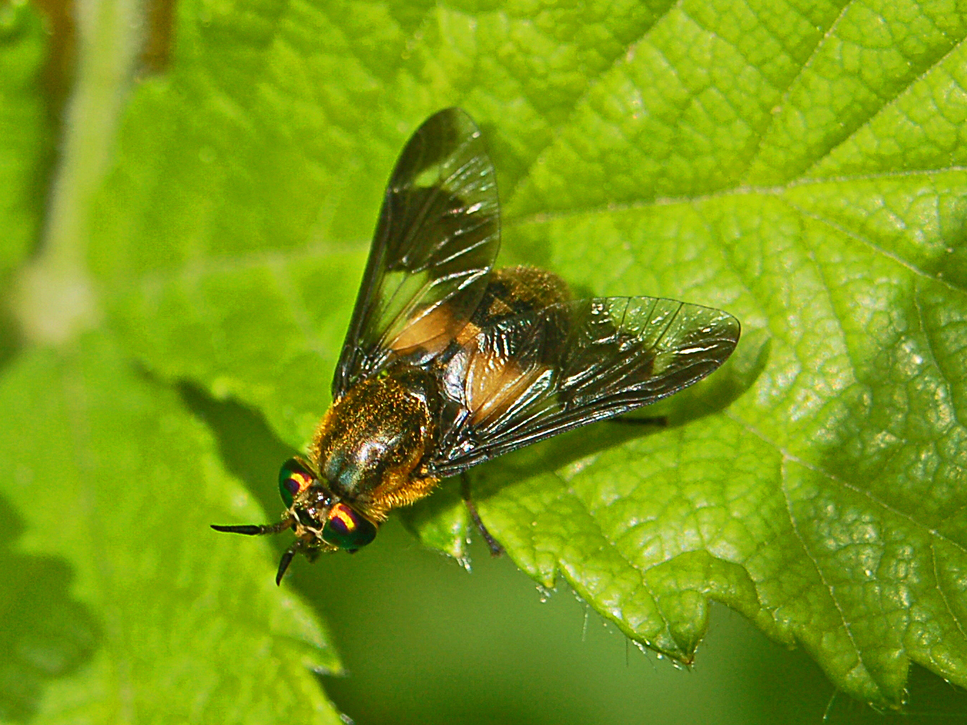 Female of Chrysops caecutiens at Regional Park of Capanne di Marcarolo, Alessandria, Italy